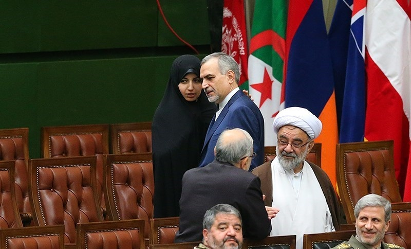 Second inauguration of Hassan Rouhani at the Parliament of Iran